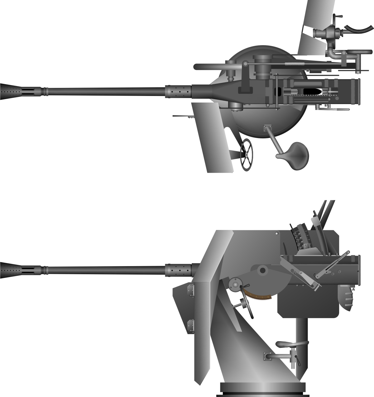 A Single 3.7cm Flak M42 gun on the Flaklafette LM 43 mount